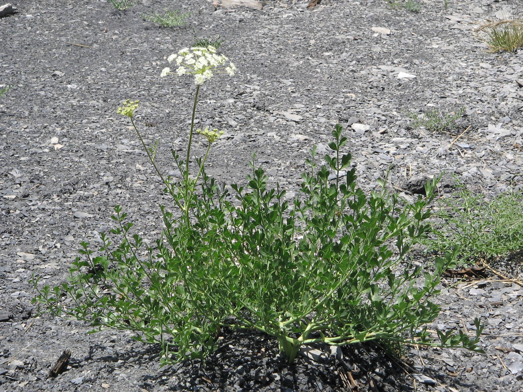 Laserpitium gallicum